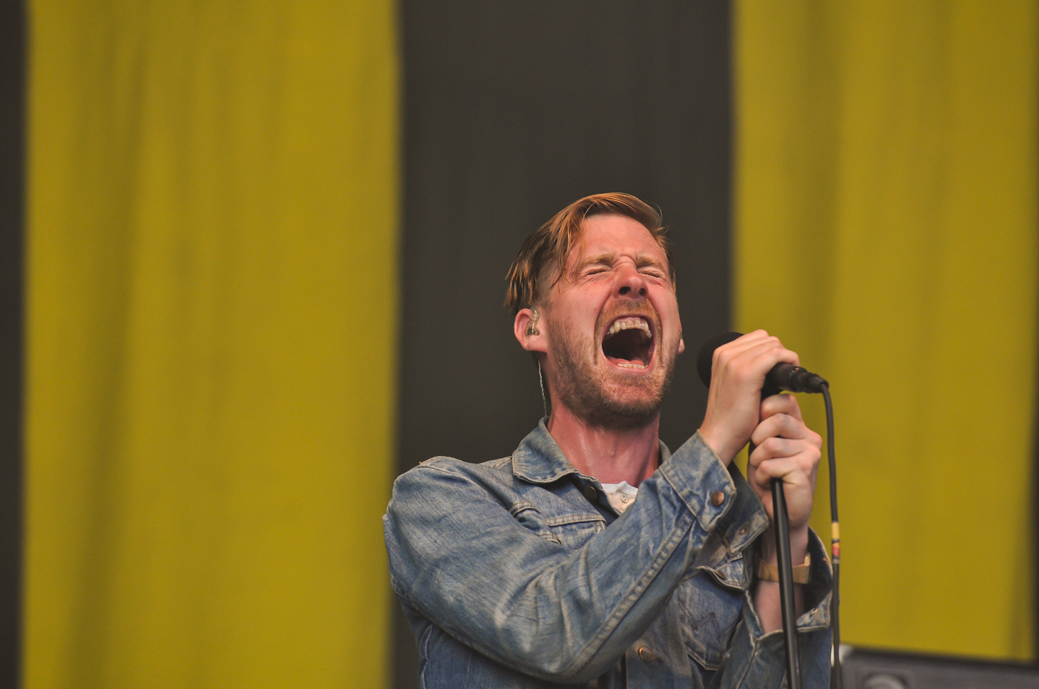 Kaiser Chiefs performing at Greenville Festival 2013